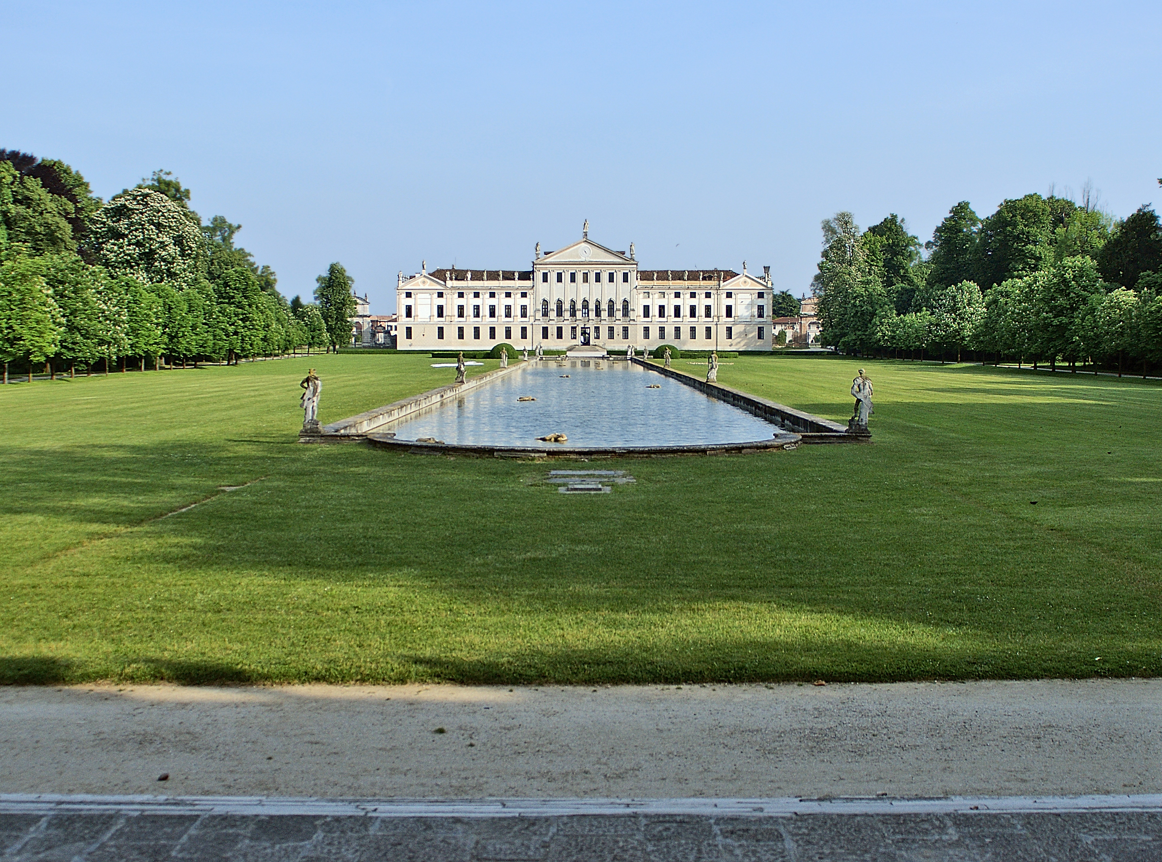 The rear facade, view of the park, of the Villa Pisani, Stra.